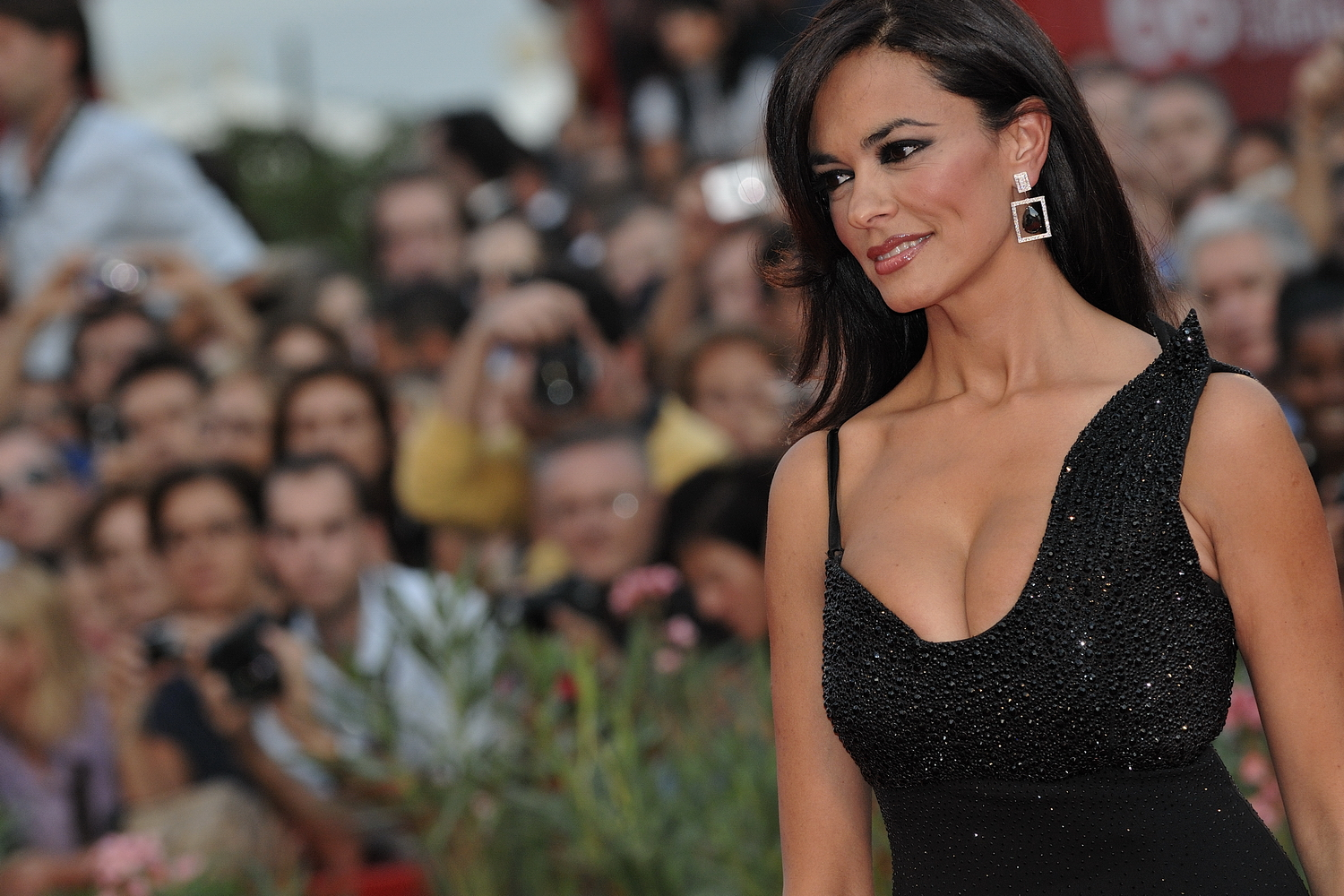 Maria Grazia Cucinotta at the closing ceremony of the 2009 Venice Film Festival